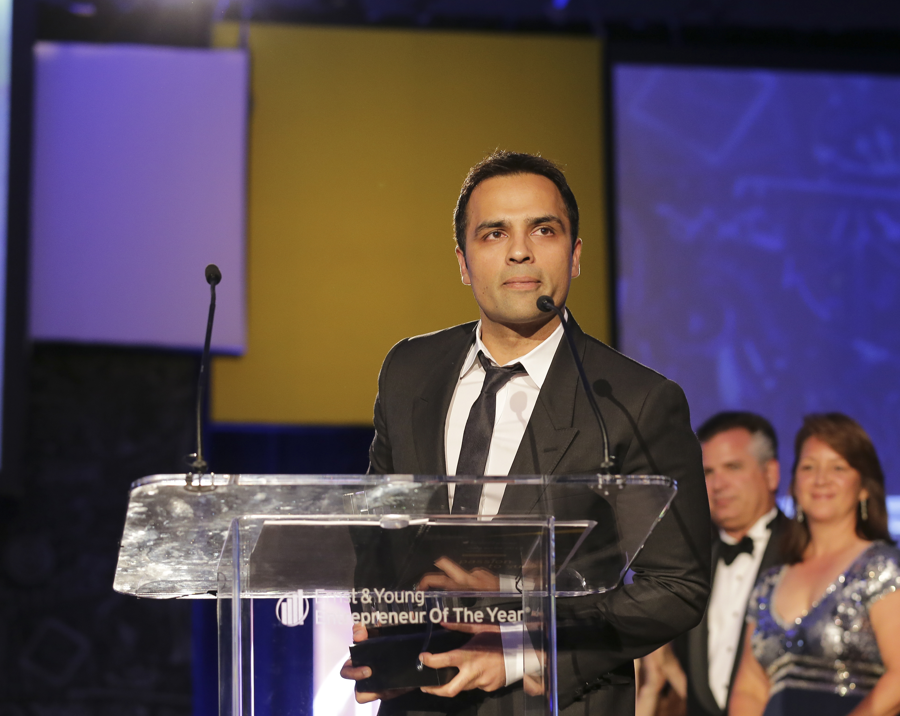 Ernst & Young, LLP 2013 Northern California EOY Gala The Fairmont Hotel San Francisco, CA June 22, 2013